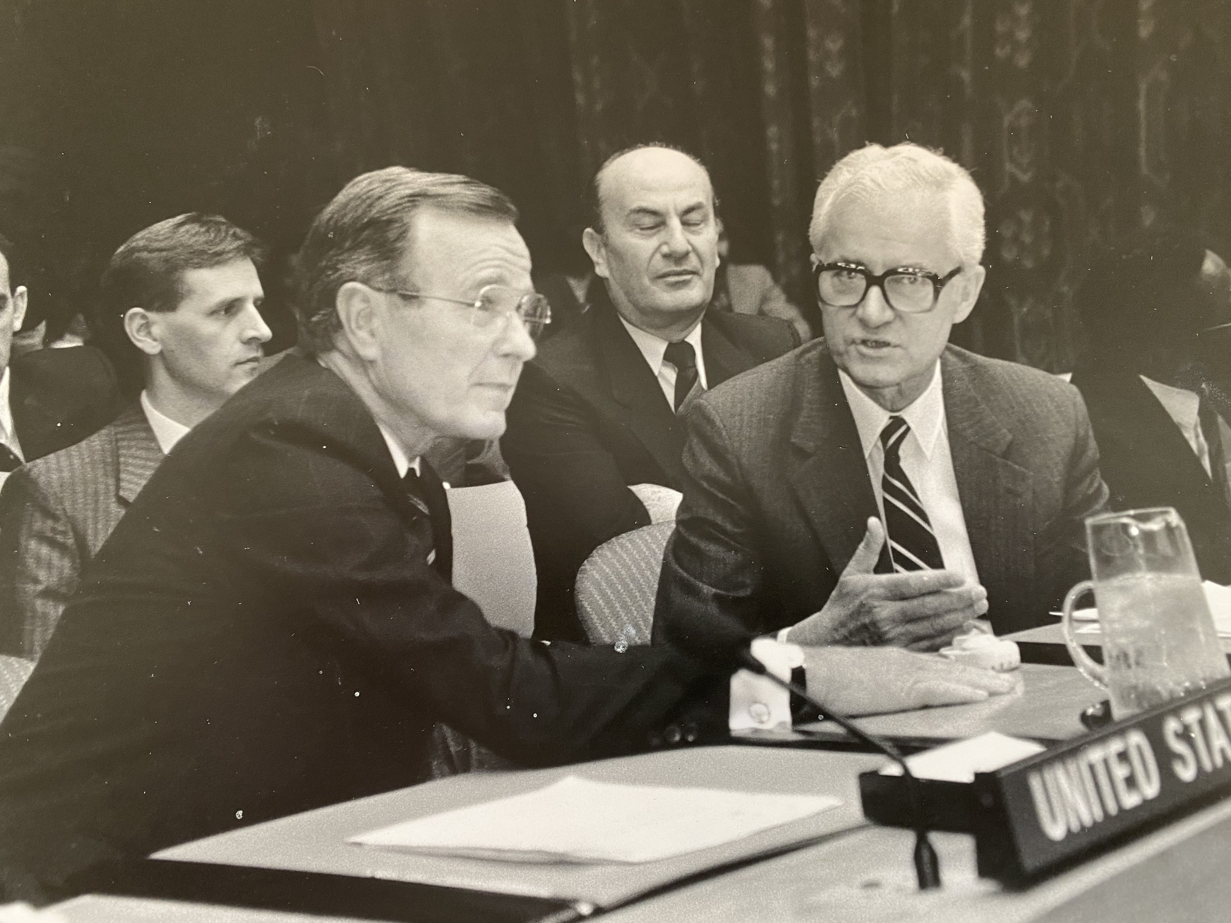 Dragoslav Pejic (right) talking to George H.W. Bush (left), Vice President of the United States during a Security Council meeting. UN Photo 171861.